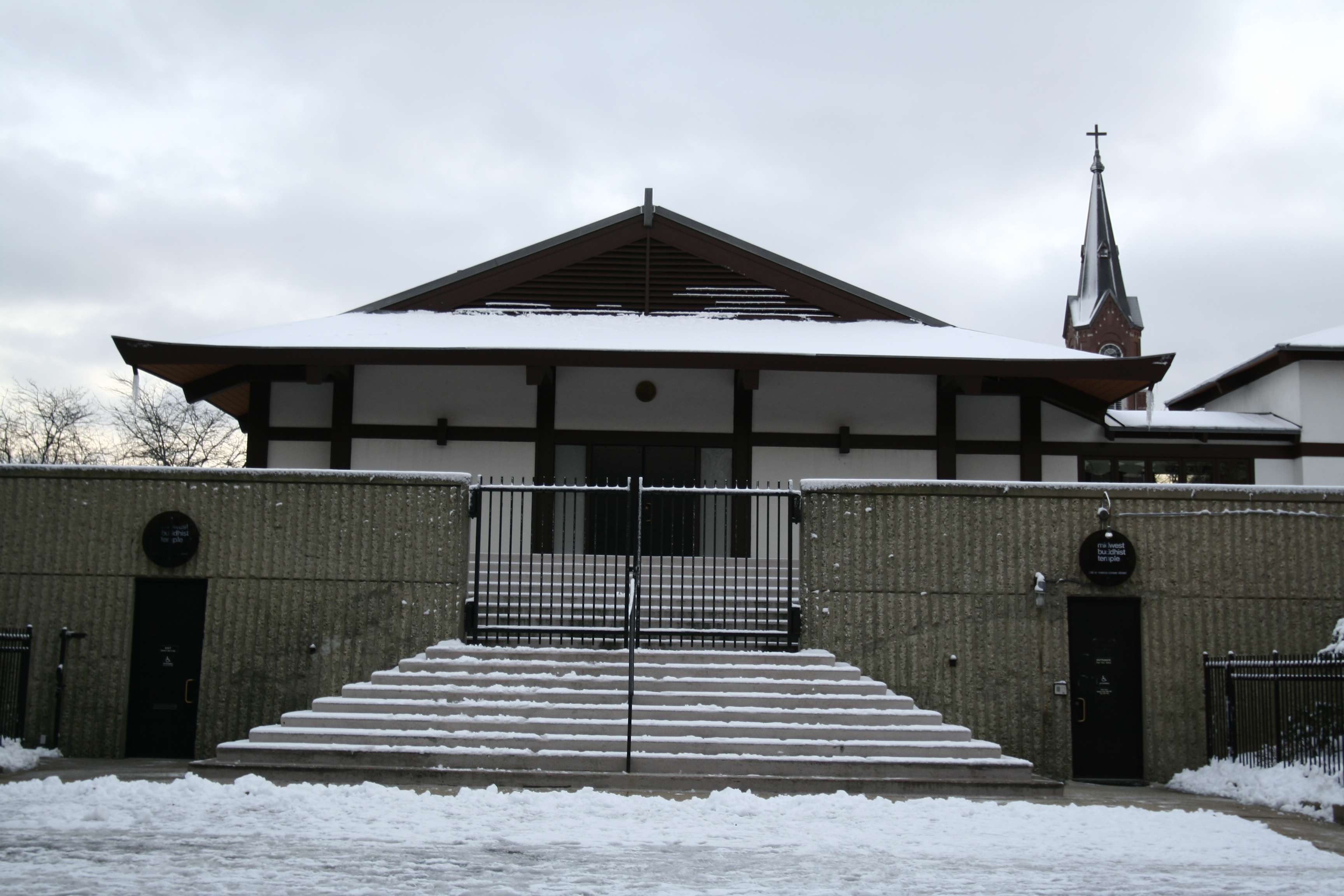 Midwest Buddhist Temple in Old Town; location 41°54'52.8"N 87°38'23.8"W